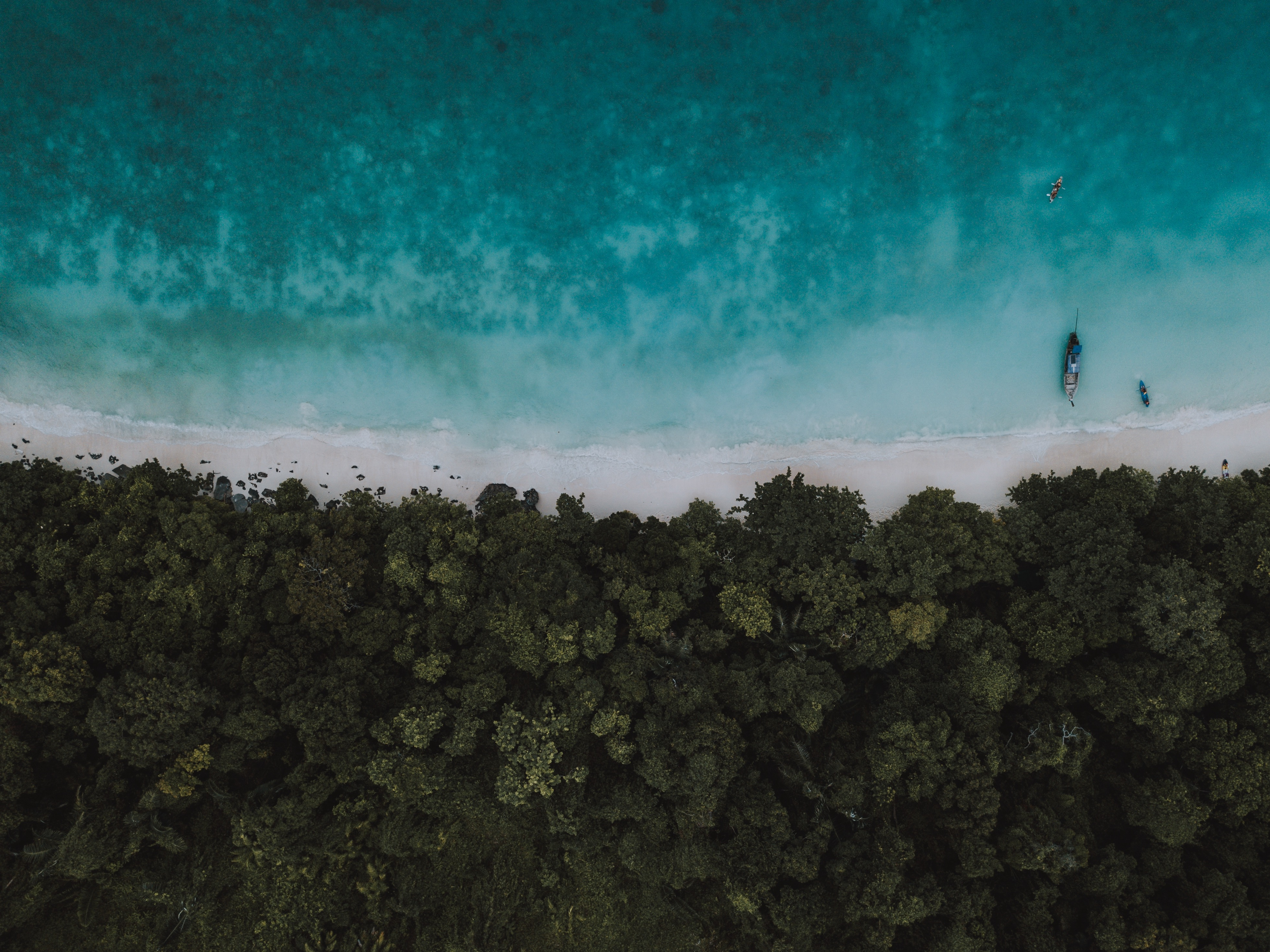 Monkey Bay, Phi Phi Island, Thailand